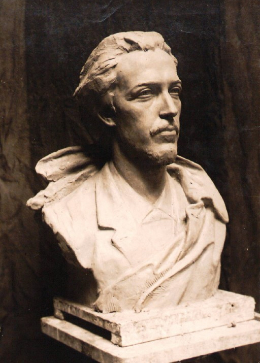 Plaster bust of Benjamin Godard (1849-1895, French Composer) by sculptor Ernest-Charles Diosi (1881-1937)